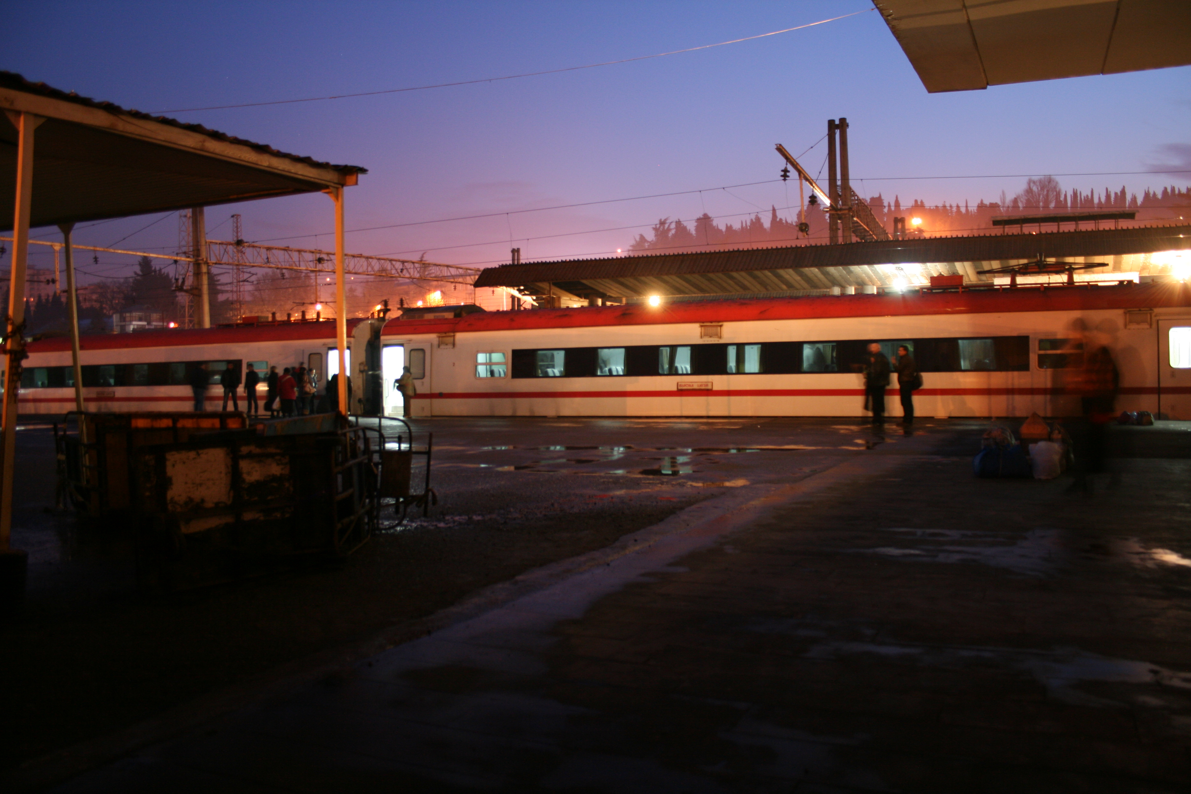 Tbilisi central station at dawn, train departing to Yerevan.